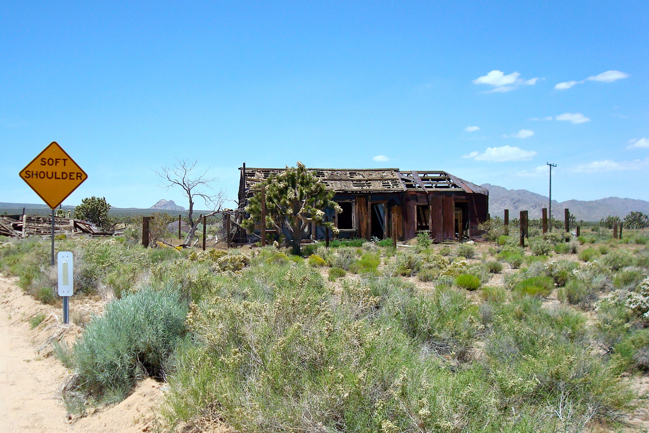 House in disrepair at center of Cima, California